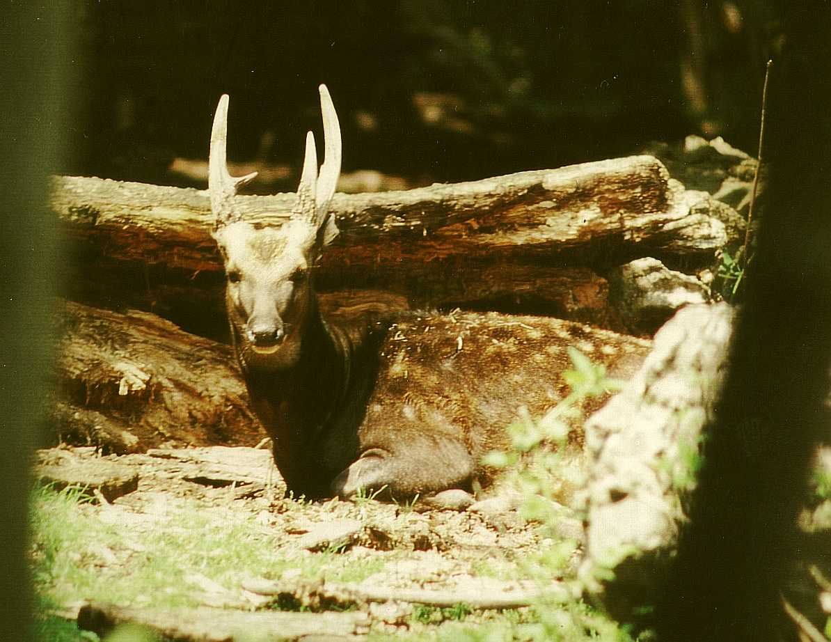 Cervus alfredi at Wien Zoo